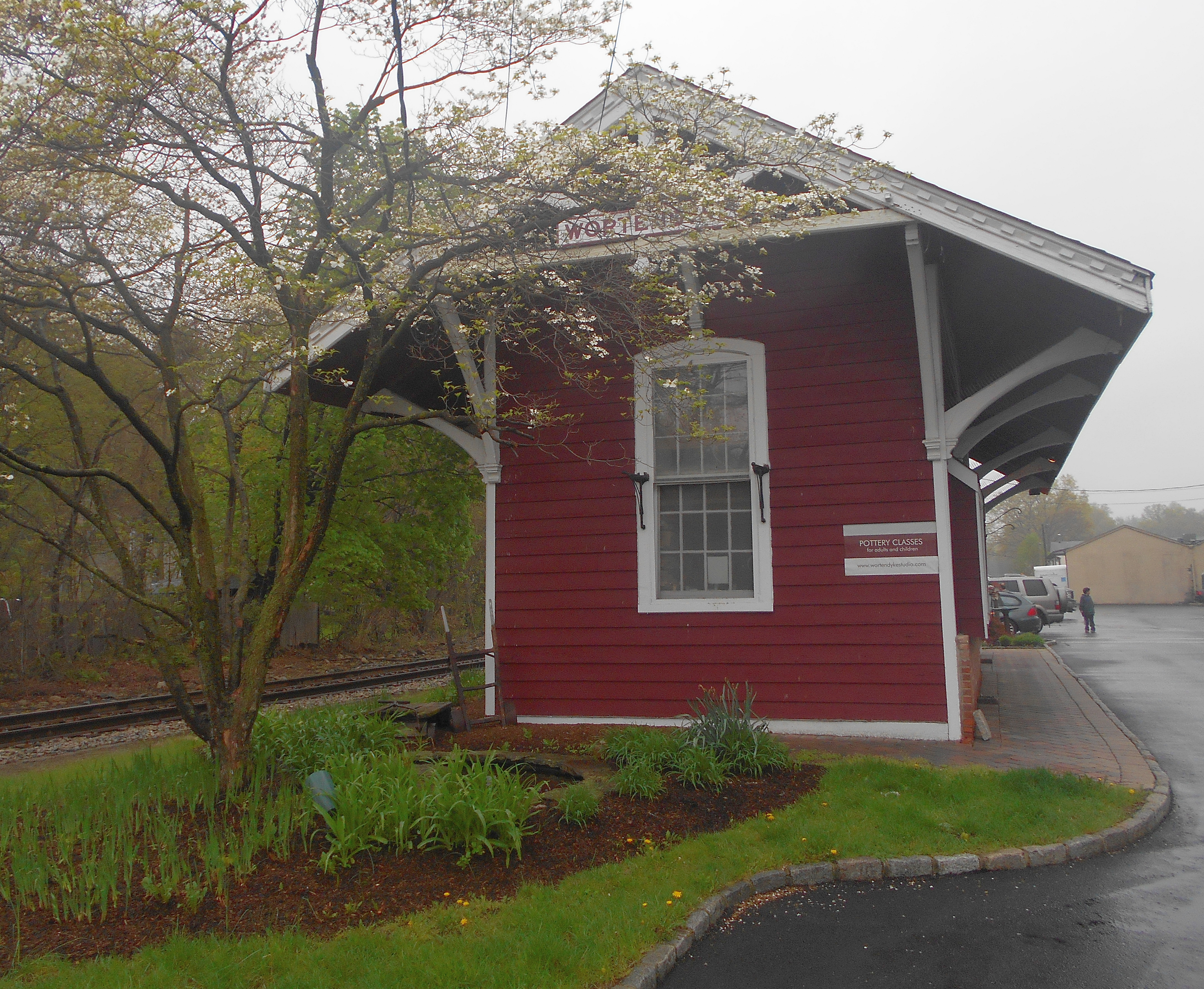 The former Wortendyke Susquehanna Railroad depot in Midland Park, New Jersey.